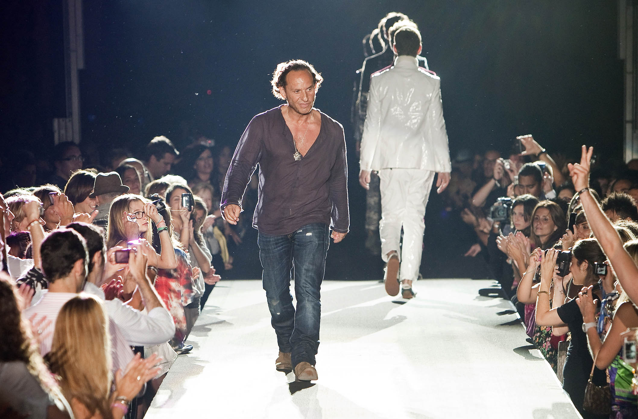 Custo Dalmau at The Brandery Summer Edition 2010